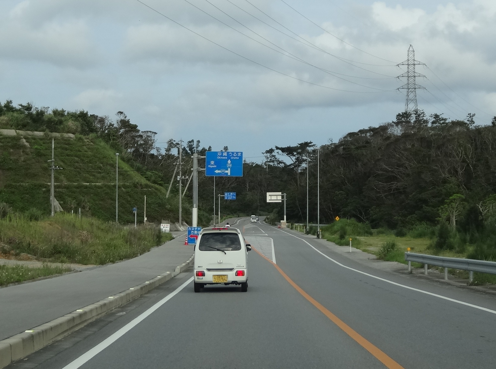 National Route 329 at Henoko, Nago City, Okinawa Prefecture, Japan.